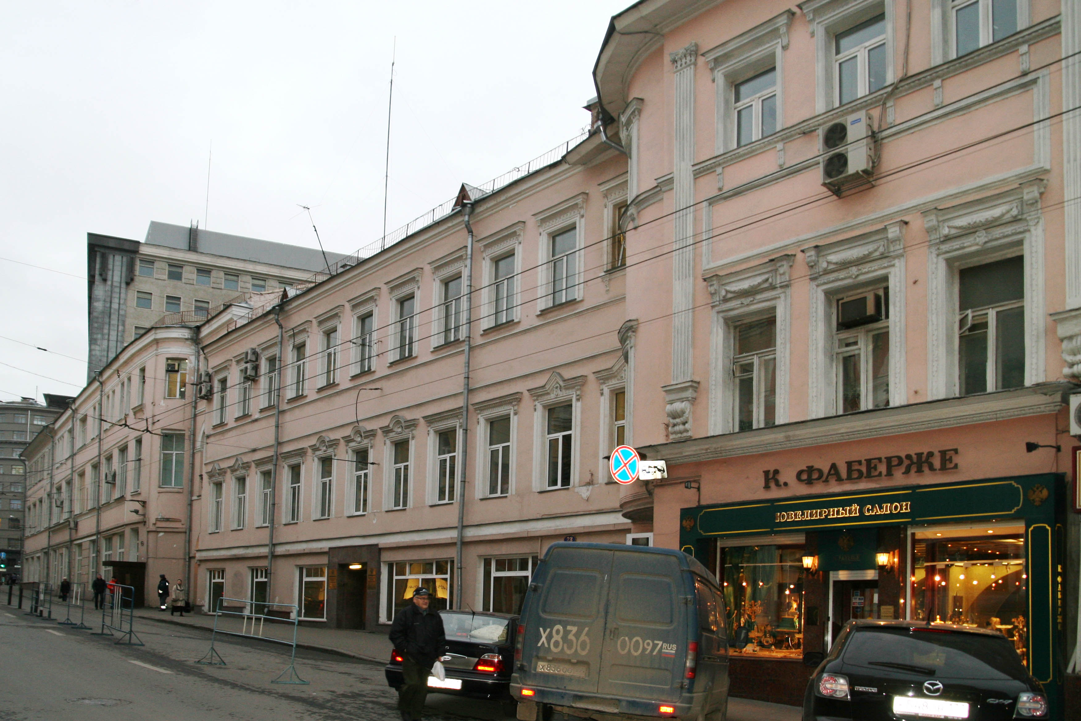 Moscow Kuznetsky Most Street 20